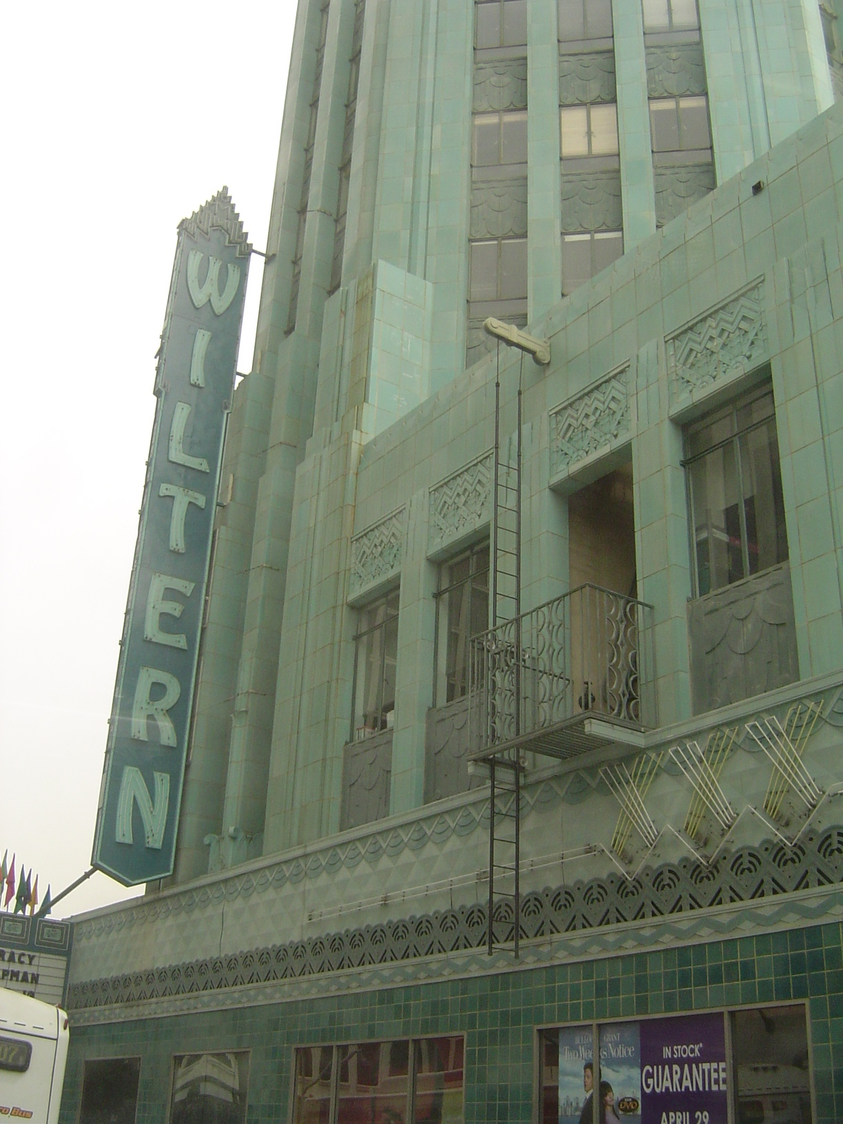 The tiled facade of :Category:Wiltern Theatre (Los Angeles)]|Wiltern Theatre — seen from Western Avenue, in the Mid-Wilshire district of Los Angeles.